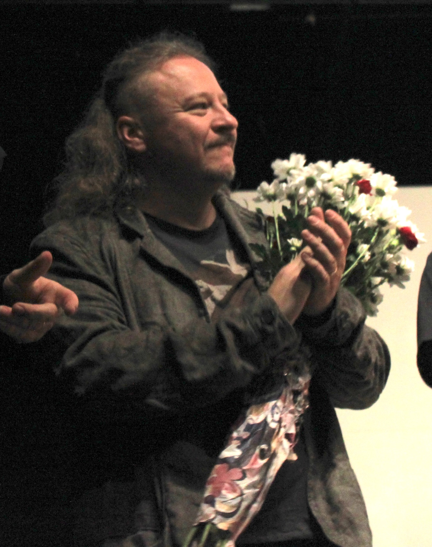 Mikalay Khalezin, the Belarusian journalist and playwrightБеларуская (тарашкевіца): Мікалай Халезін, беларускі журналіст і драматург